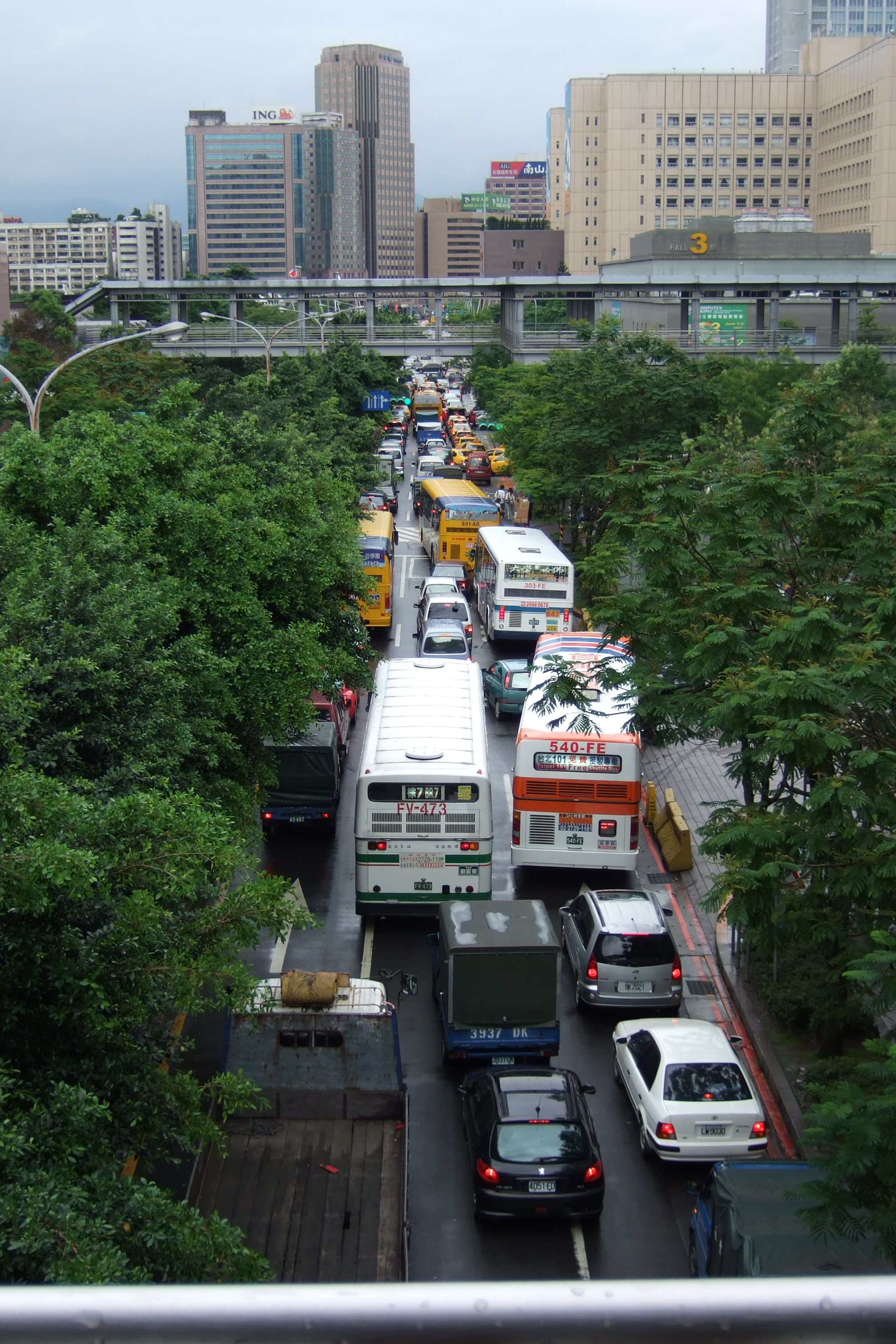 Traffic jam soon after the end of Computex 2007.